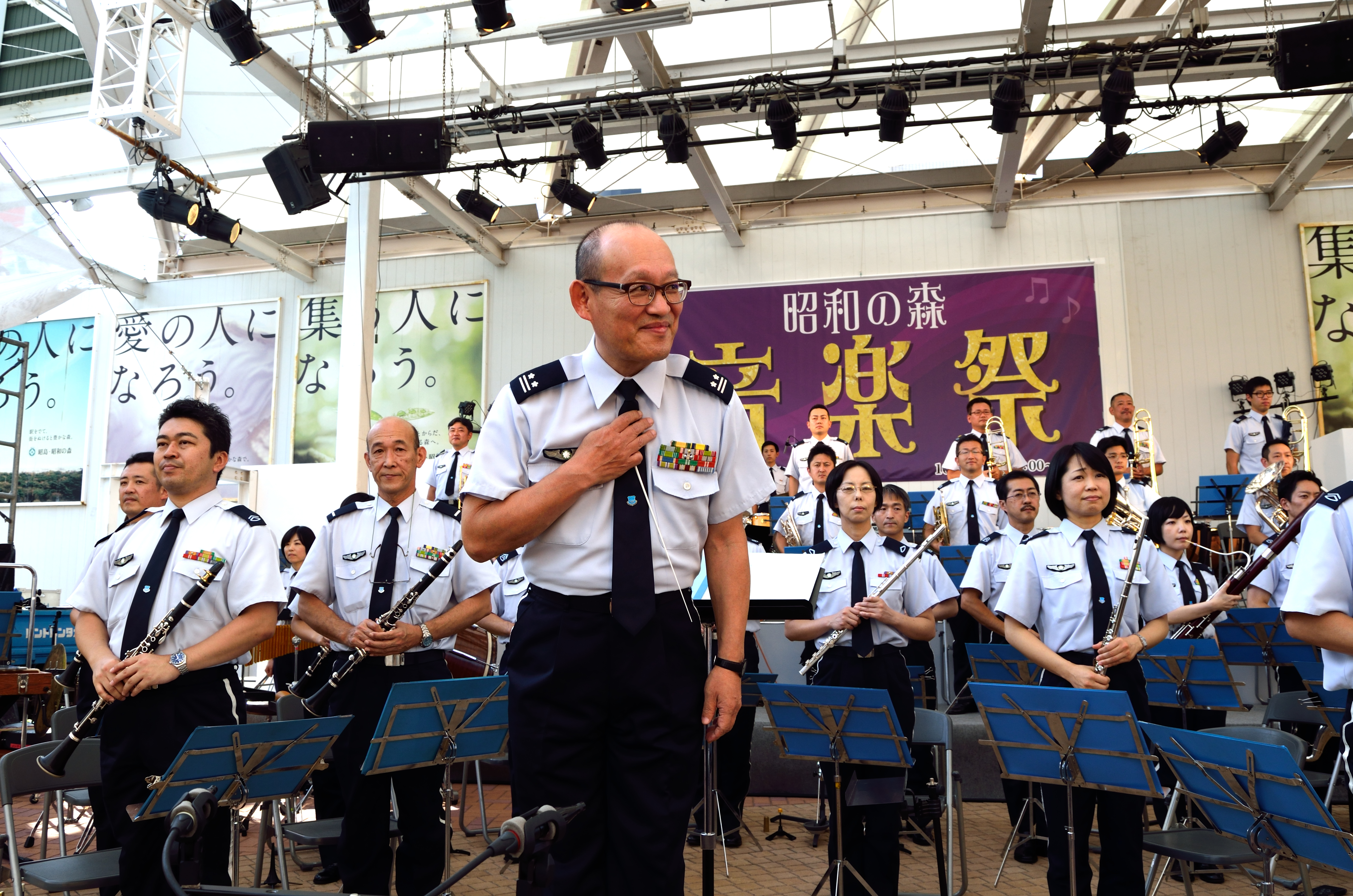 Japan Air Self-Defense Force Central Band at Akishima, Tokyo on October 4, 2015.